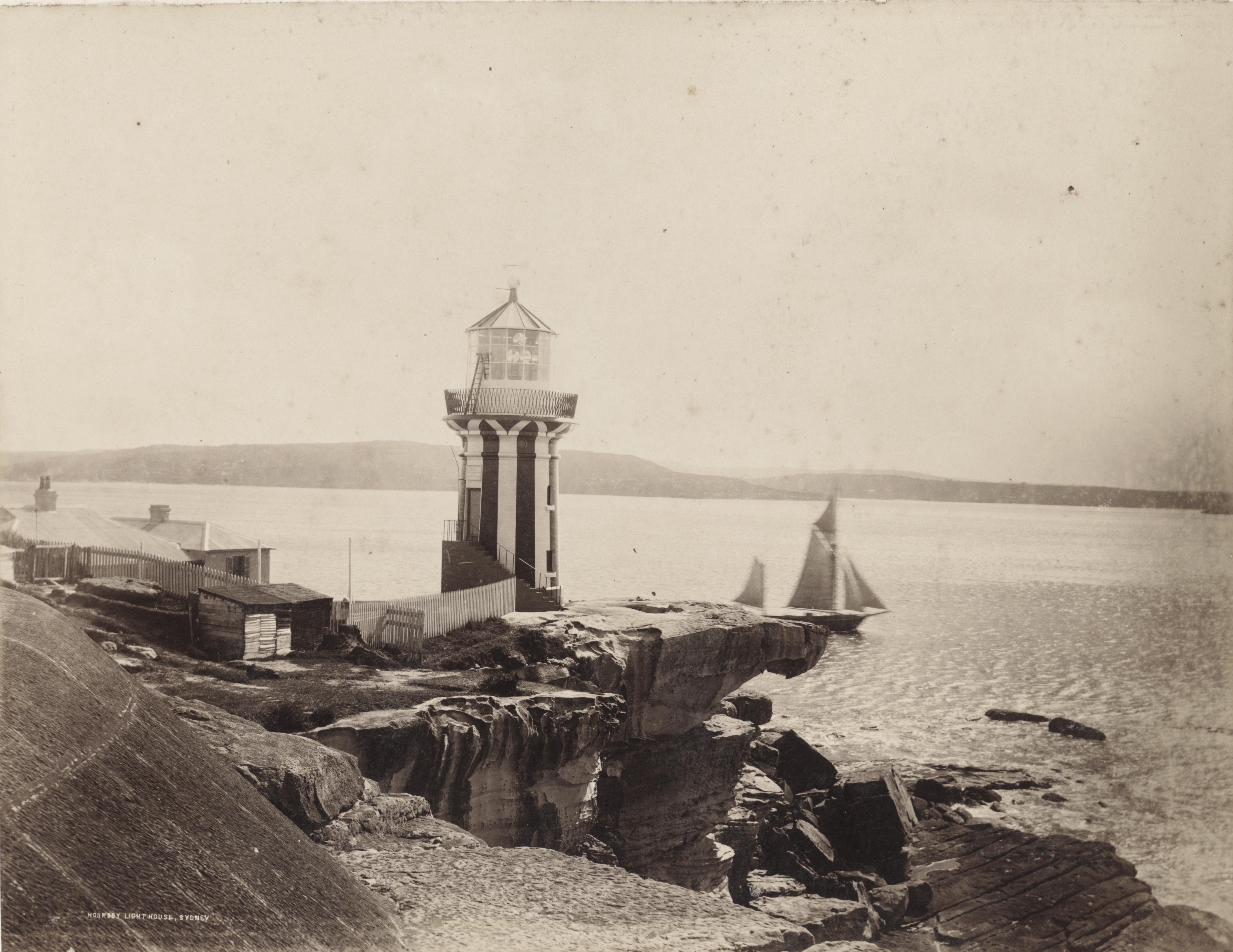 The Hornby Lighthouse (1895)